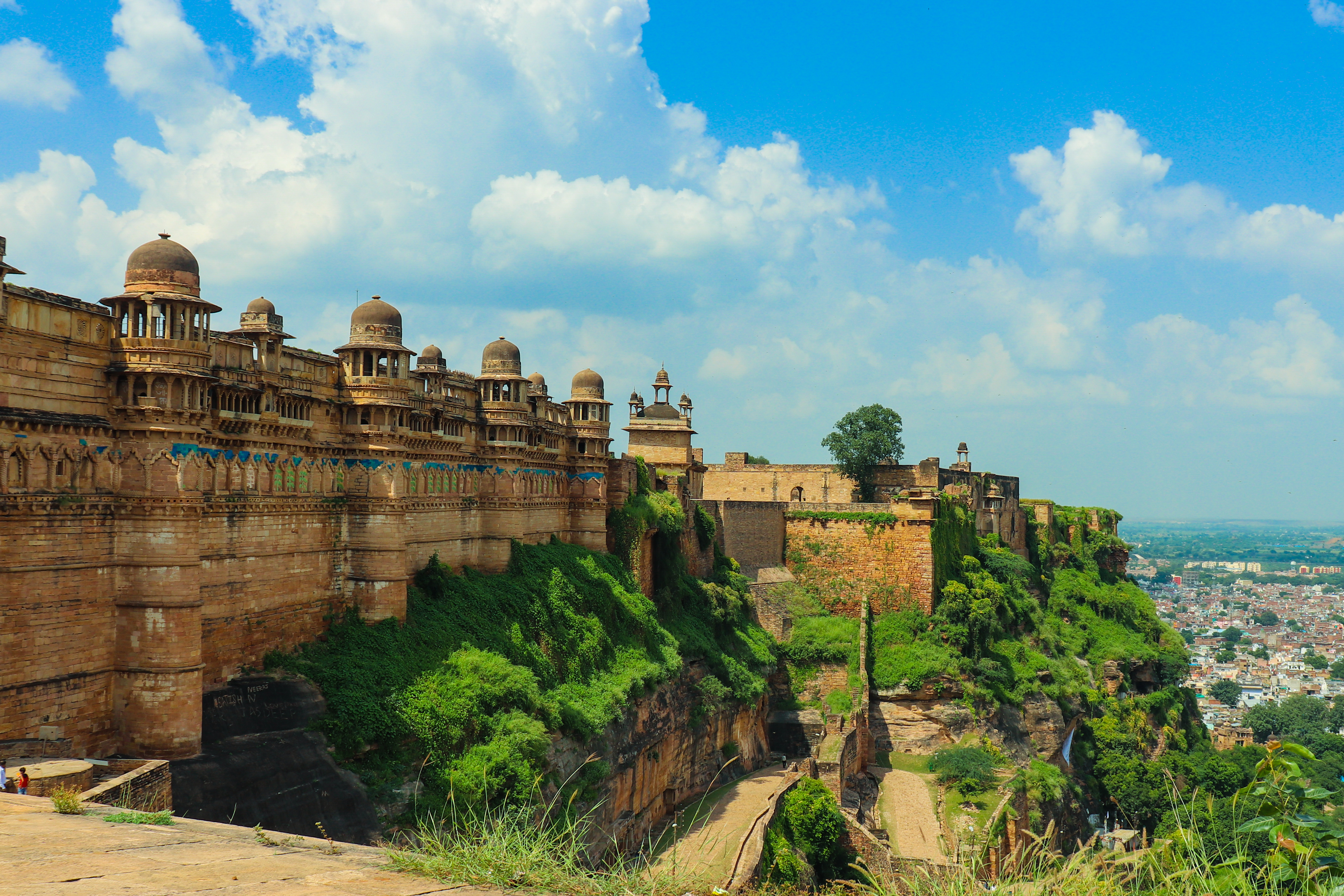 give's one a bird eye of the city below. no wonder army of enemy can be easily seen from miles in earlier times and gives enough time to strengthen defence.